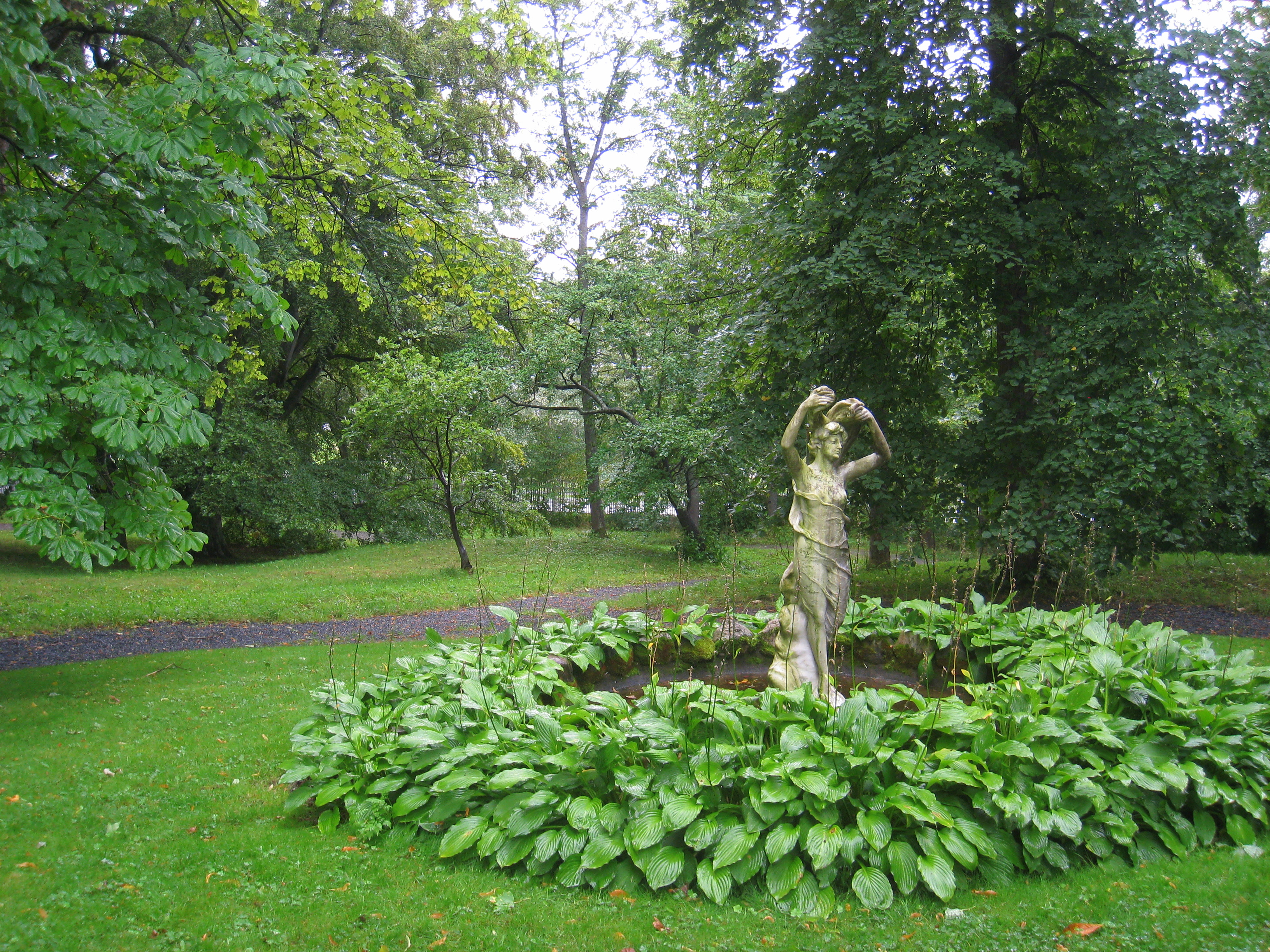 Ringve Museum, Trondheim, Norway.